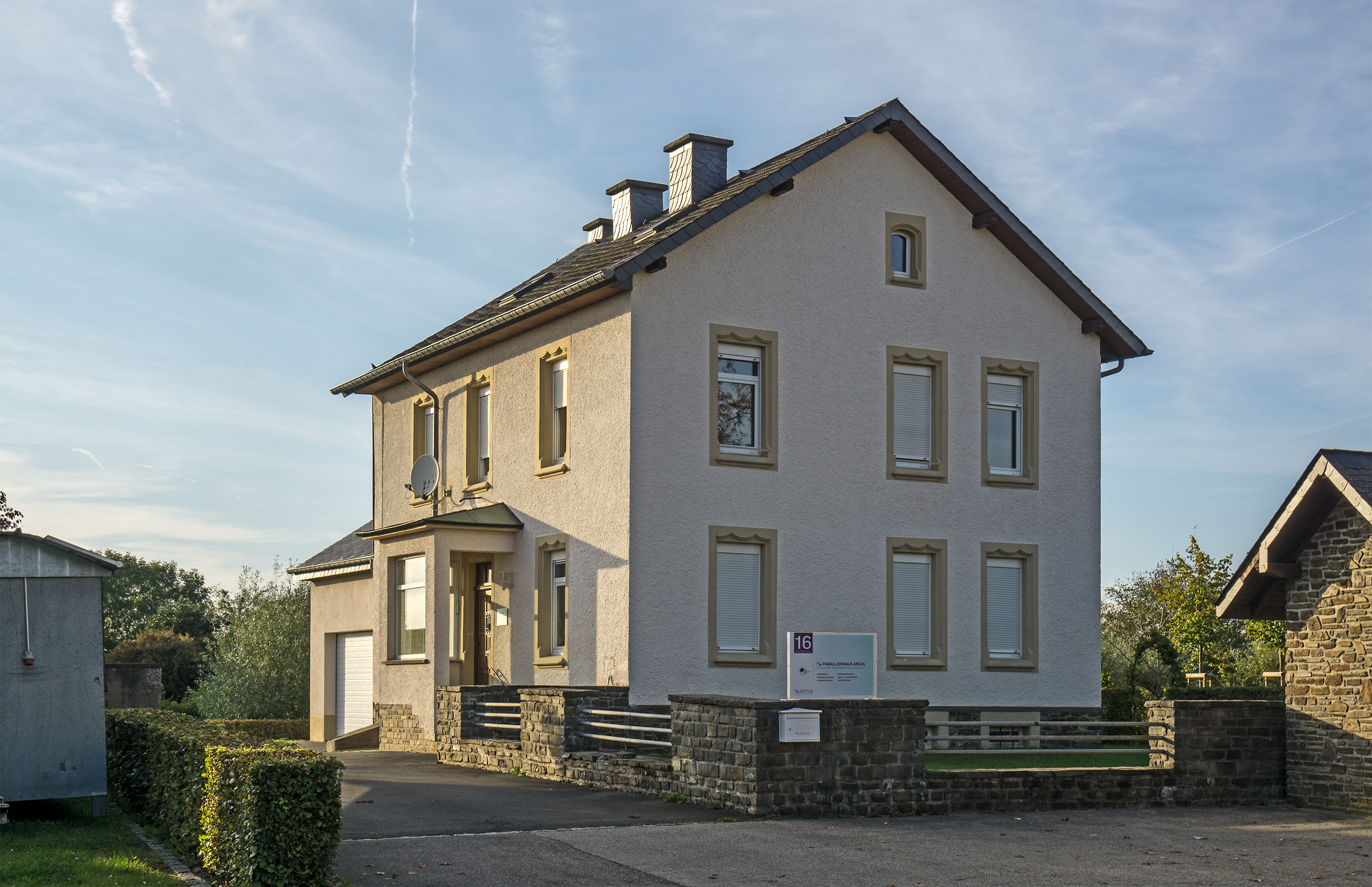 Former rectory in Marnach, actually Familljenhaus Arcus